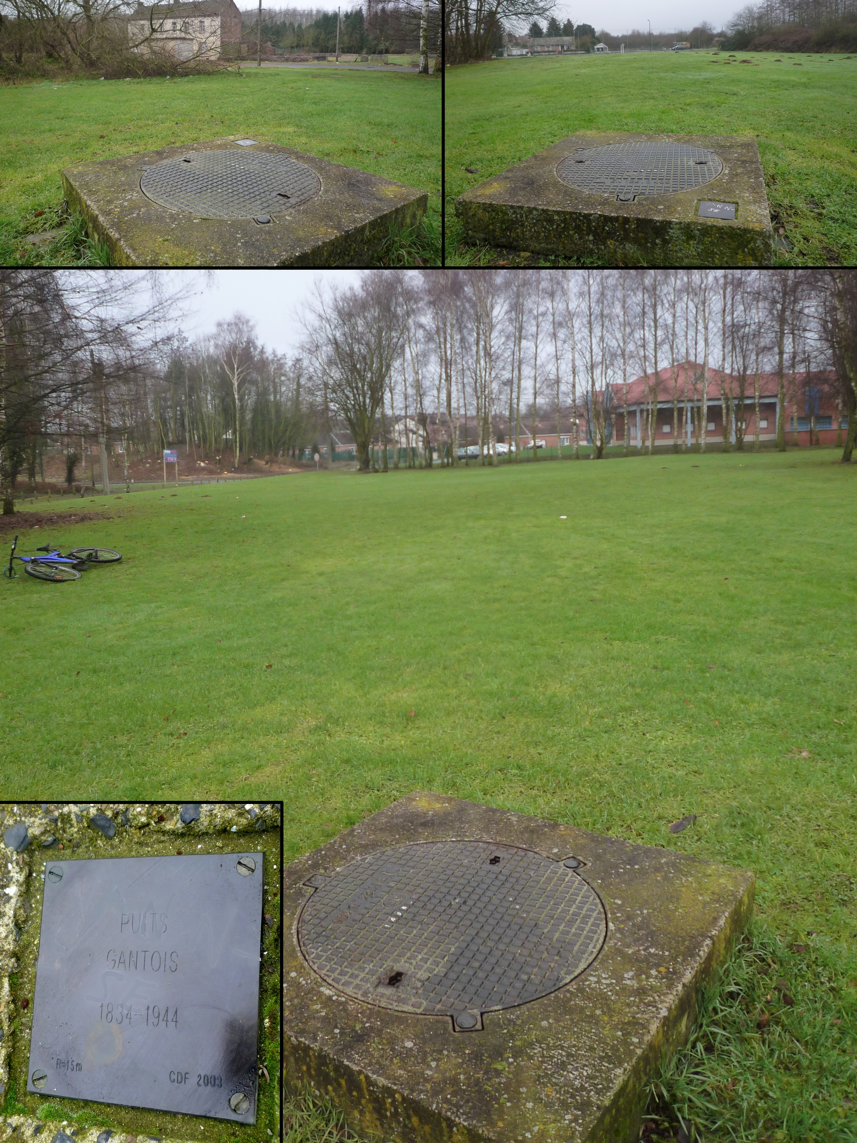 Pit Gantois, Compagnie des mines de Douchy, Lourches, Nord, Nord-Pas-de-Calais, France.